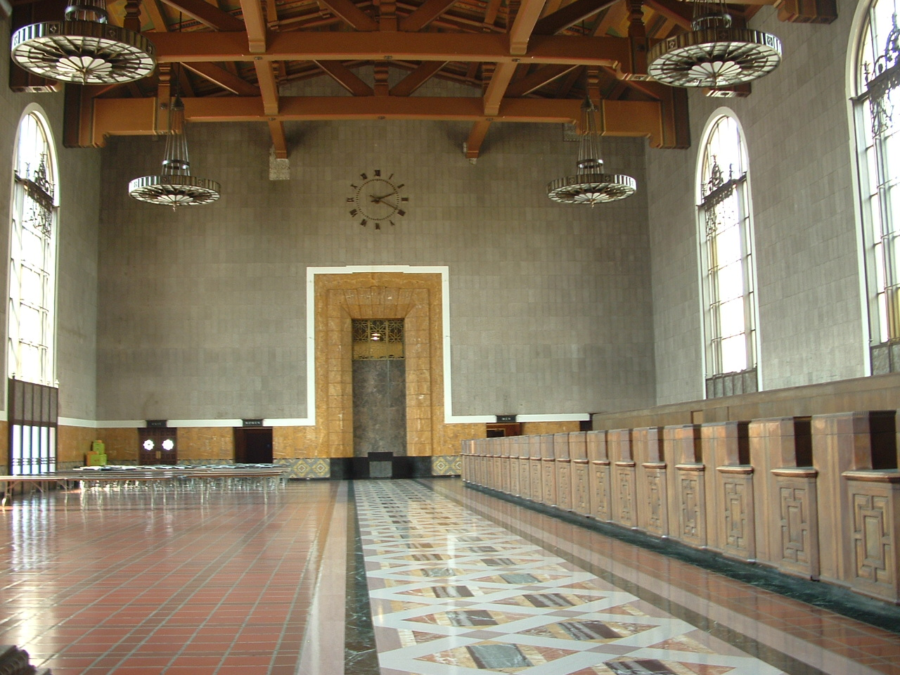 LA Union Station's Original Ticket Lobby. The feature at the far end is reminiscent of a Mosque's Prayer niche and contained a drinking fountain.